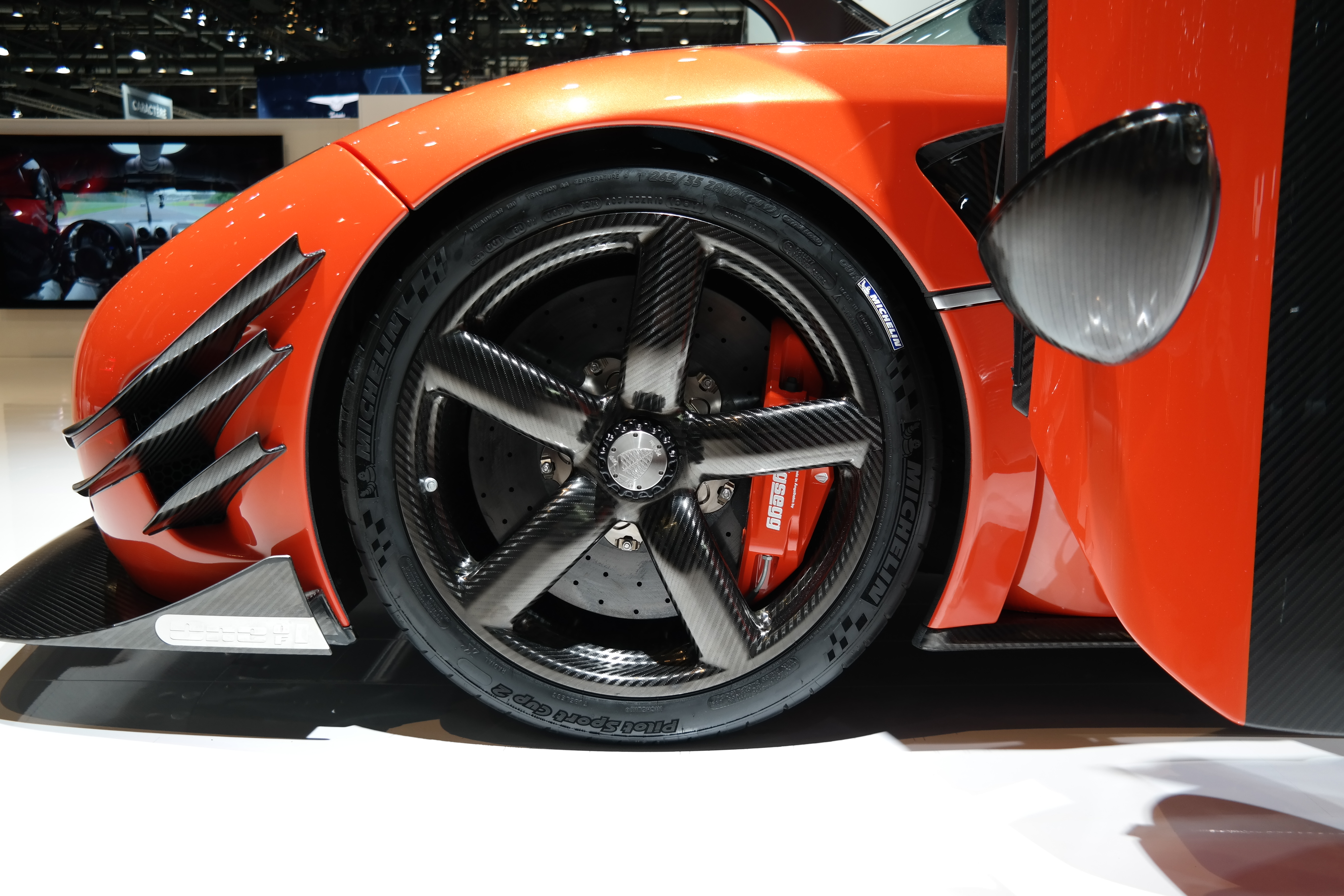 Geneva Motor Show 2016 (photo taken on the first press day)